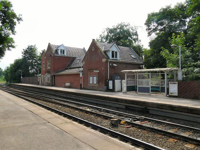 Woodley Station The old station buildings are now private housing.